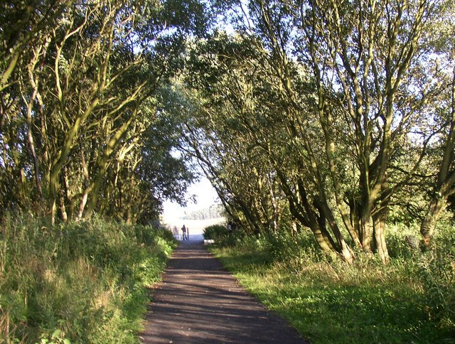 The Great Northern Railway Trail — near Cullingworth in West Yorkshire, England. This is the section to the west of the Cullingworth Viaduct.